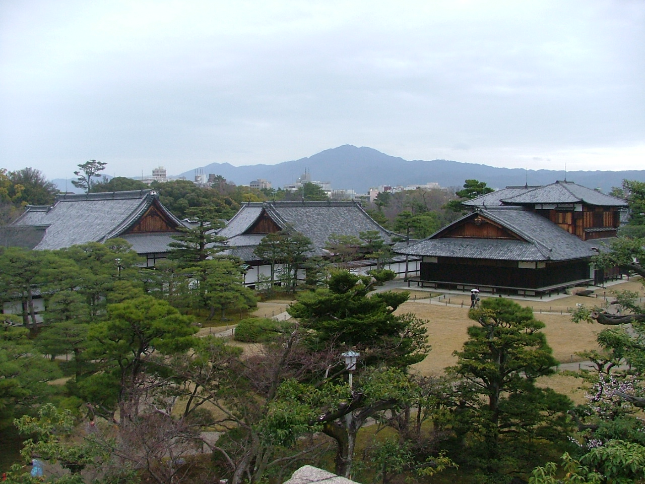 General view of Nijō Castle in Kyoto